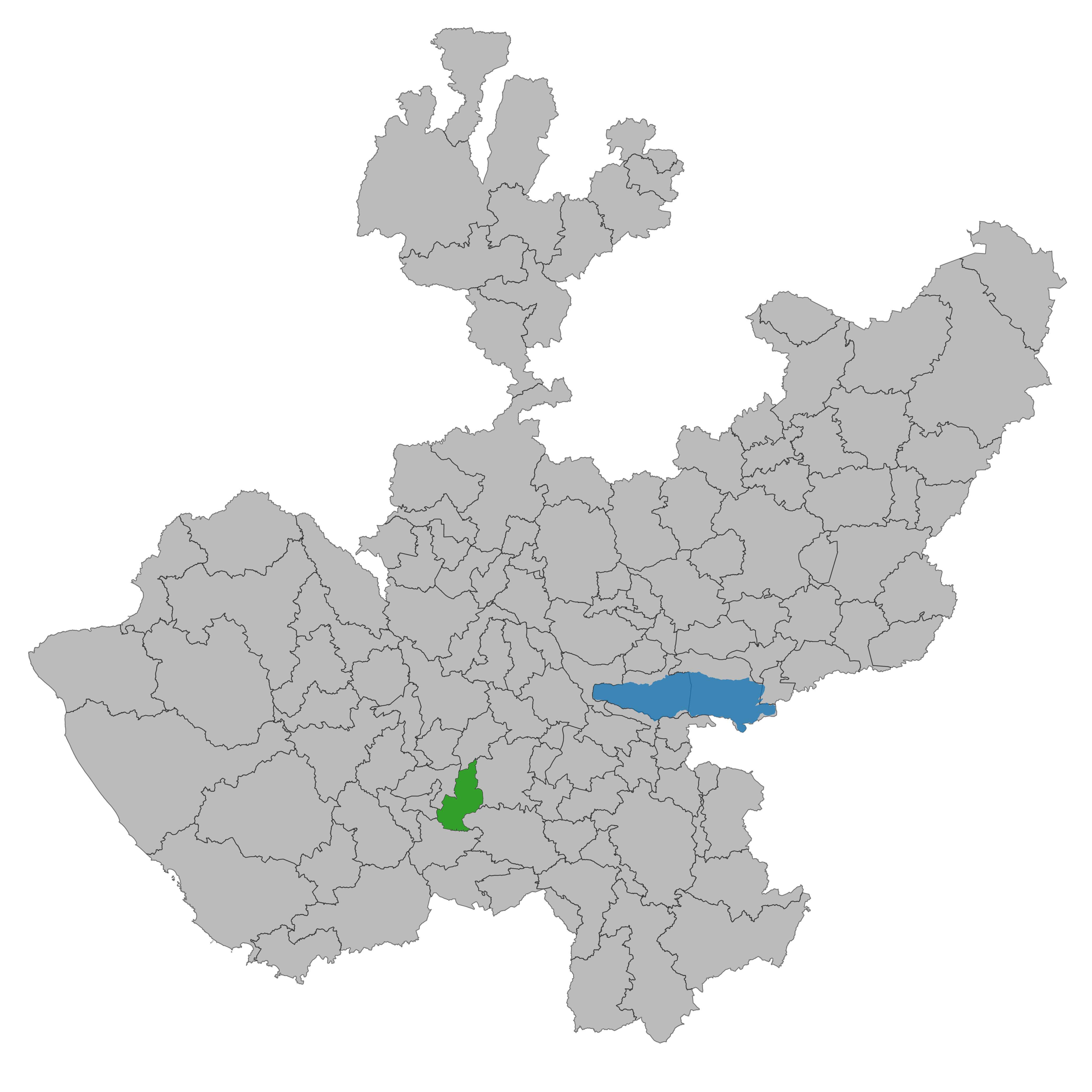 Municipality of Jalisco. Prepared with the software QGIS version 2.8.2 Wien & with information of SCINCE 2010 version 05/2013